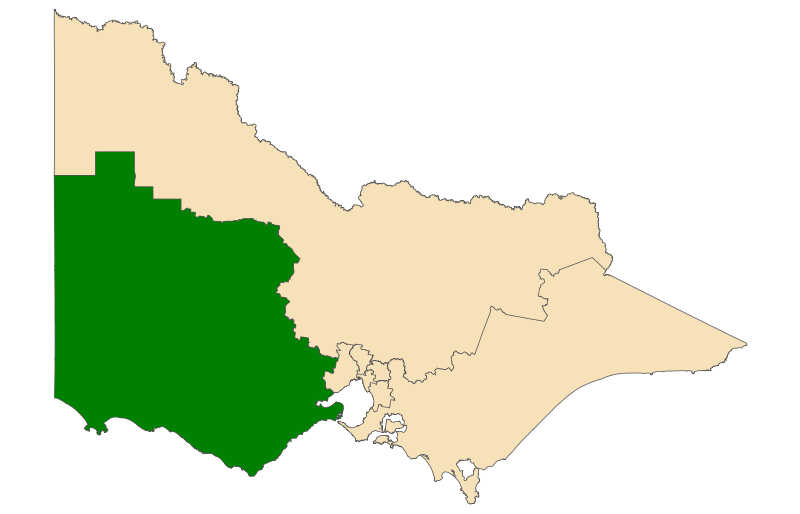 Location of the Victorian Legislative Council Region of Western Victoria (dark green).